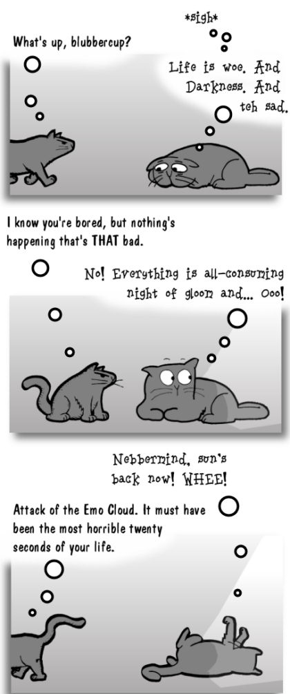 A strip from the comic Two Lumps dated 26 April 2006.